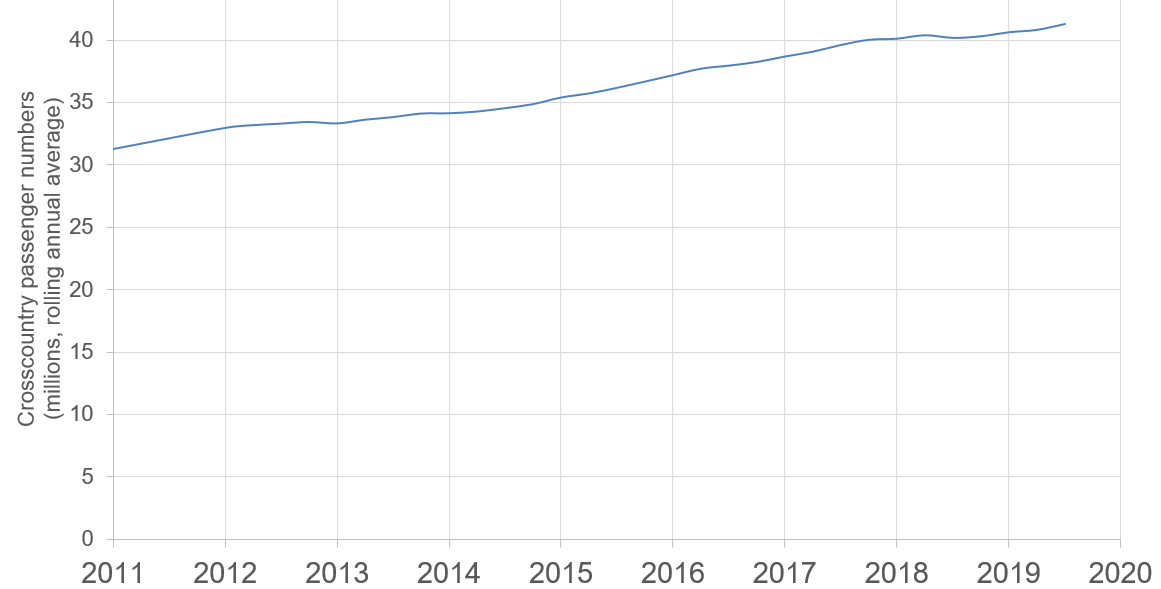 Passenger numbers on Crosscountry services between 2010/11 and 2018/19 Q1 using ORR TOC Key stats and Passenger journeys by TOC